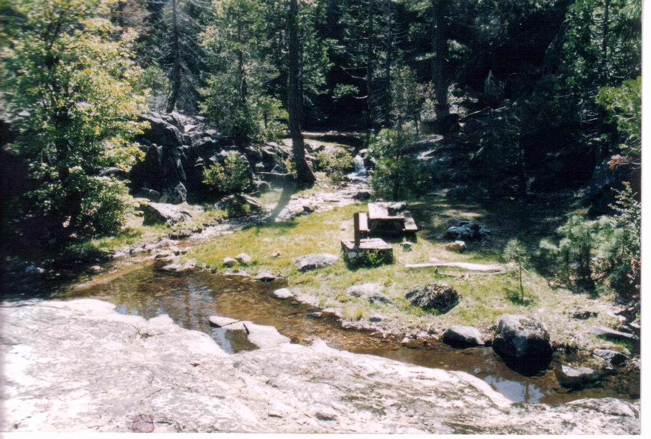 campsite at Upper Hell Hole boat-in campground